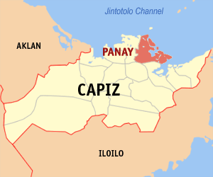 Map of Capiz showing the location of Panay